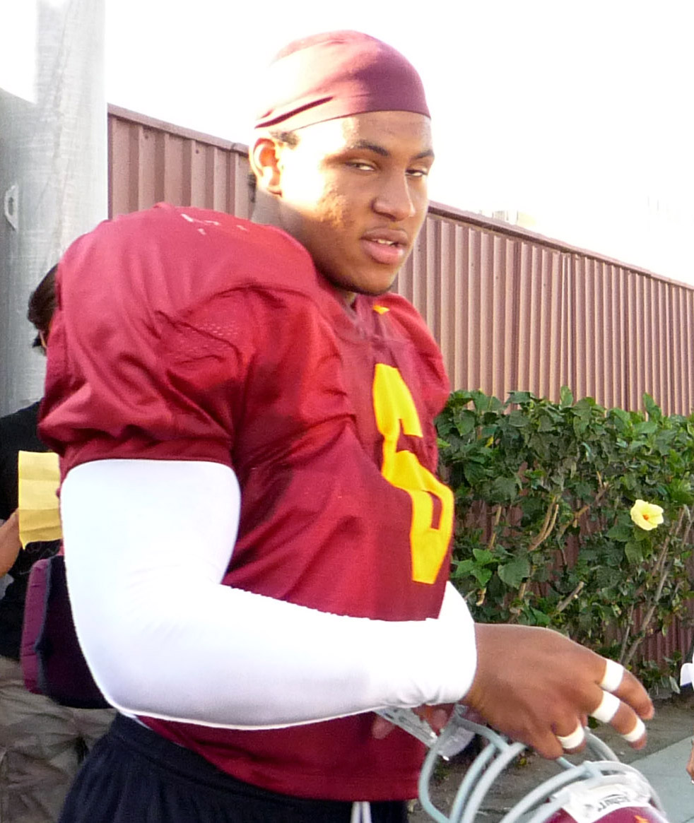 Linebacker Malcolm Smith, after a fall practice preceding the 2008 USC Trojans football season.